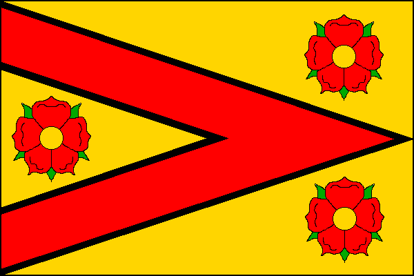 Municipal flag of Police nad Metují town, Náchod District, Czech Republic.